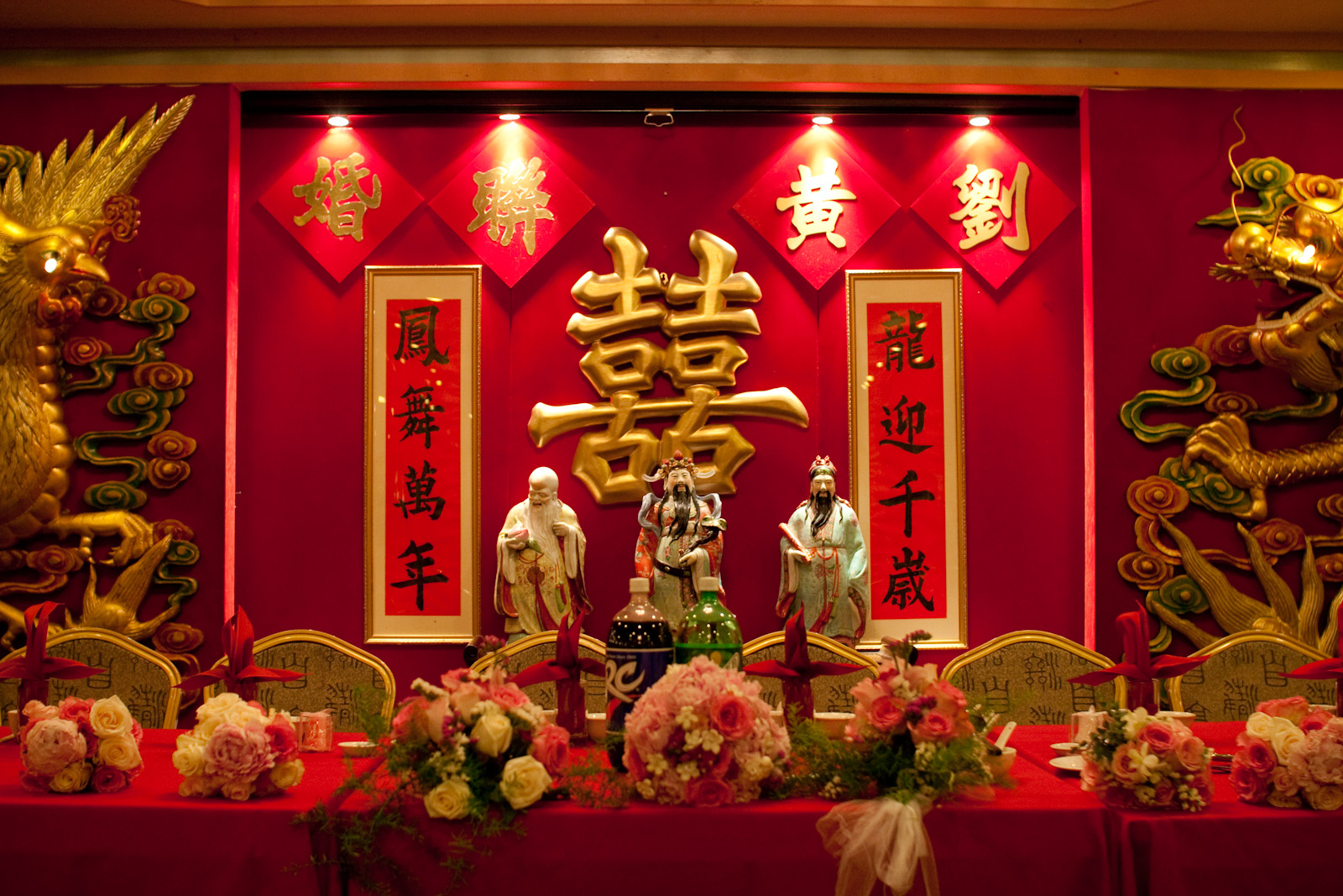 Chinese Restaurant Wedding Reception